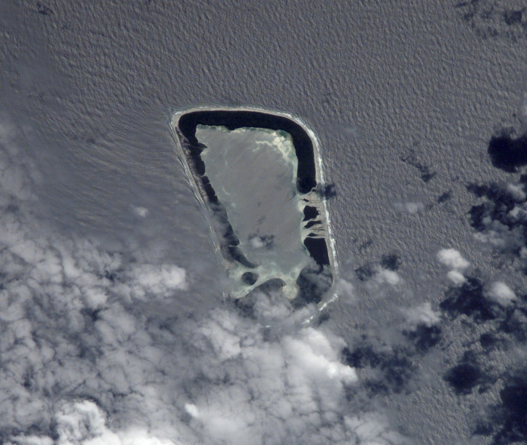 NASA astronaut image of Rakahanga Atoll (Cook Islands) in the Pacific Ocean